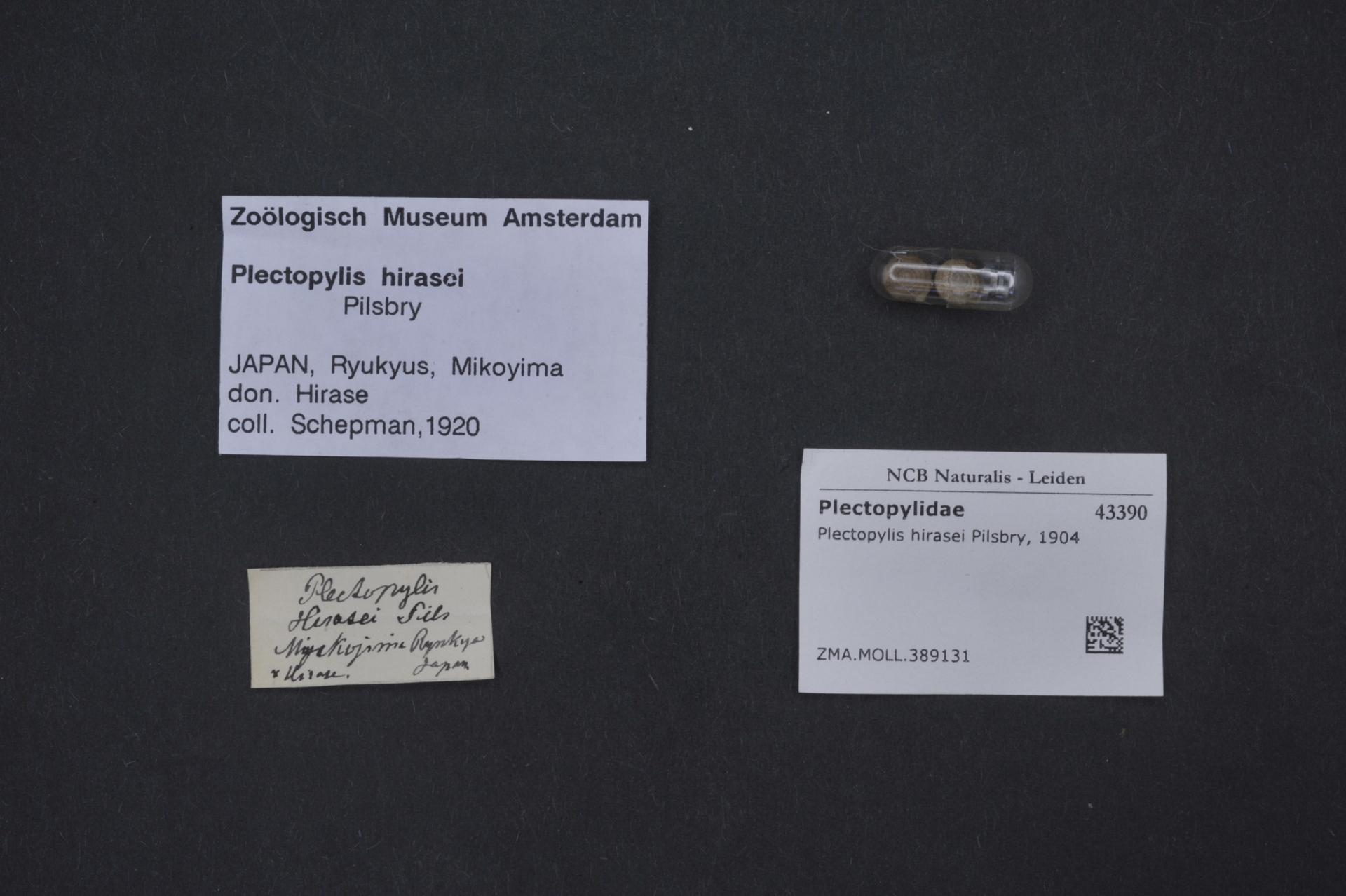 Plectopylis hirasei Pilsbry, 1904